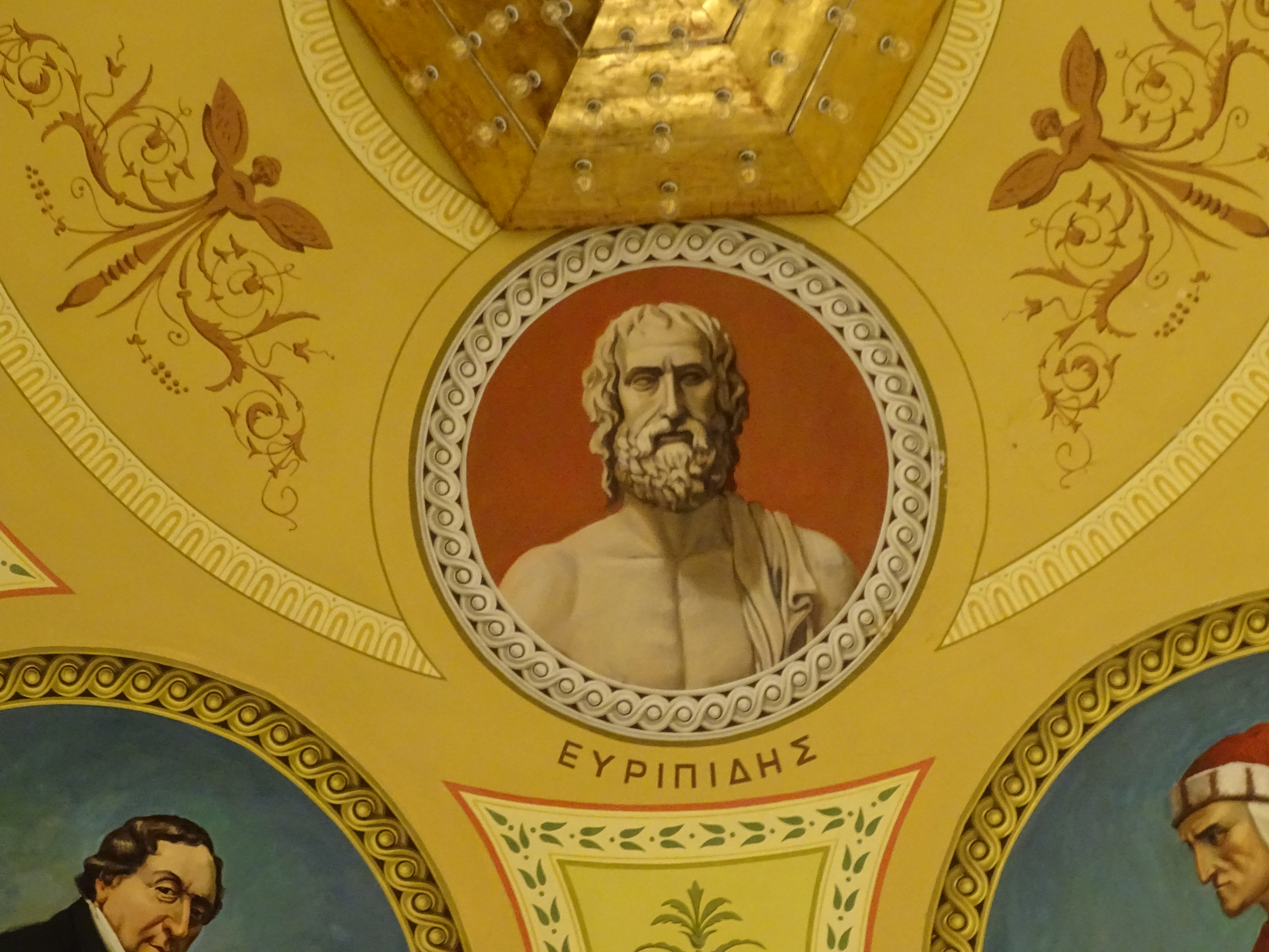 Euripides at the Ceiling of Apollo Theatre, Syros